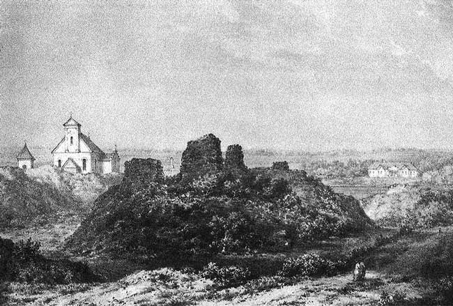 Geranieny. Gastold's castle ruins, St. Michel Roman Catholic Church.